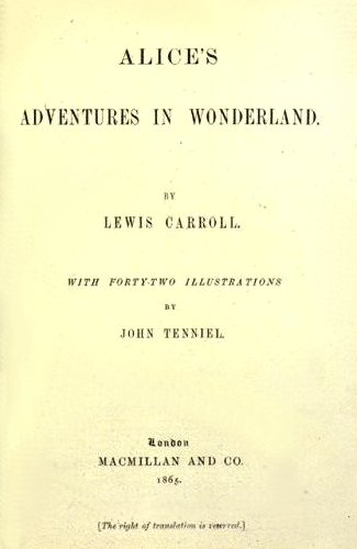 title page of the 1865 edition of Lewis Carroll's Alice's Adventures in Wonderland